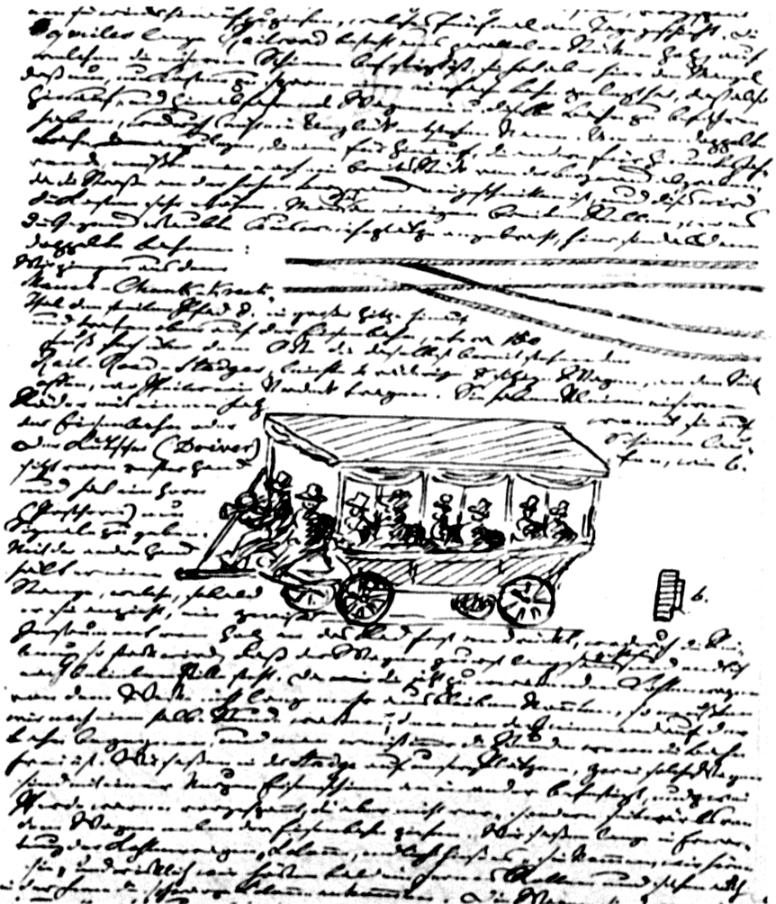 Journal of Maximilian zu Wied-Neuwied vol. I page 85. He describes the railway lay-by and the passenger carriages of a railway at Mauch Chunk in Pennsylvania, USA, in the year 1832.